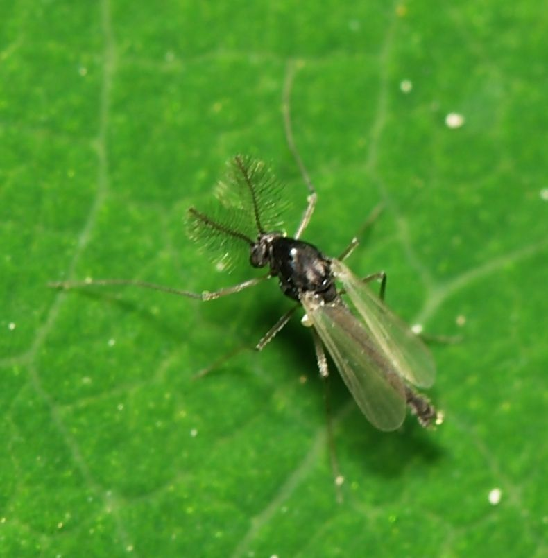 male Chironomidae from Cologne, Germany. Only 1-2 mm long.